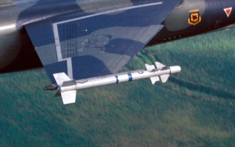 Matra R.550 Magic air-to-air missile